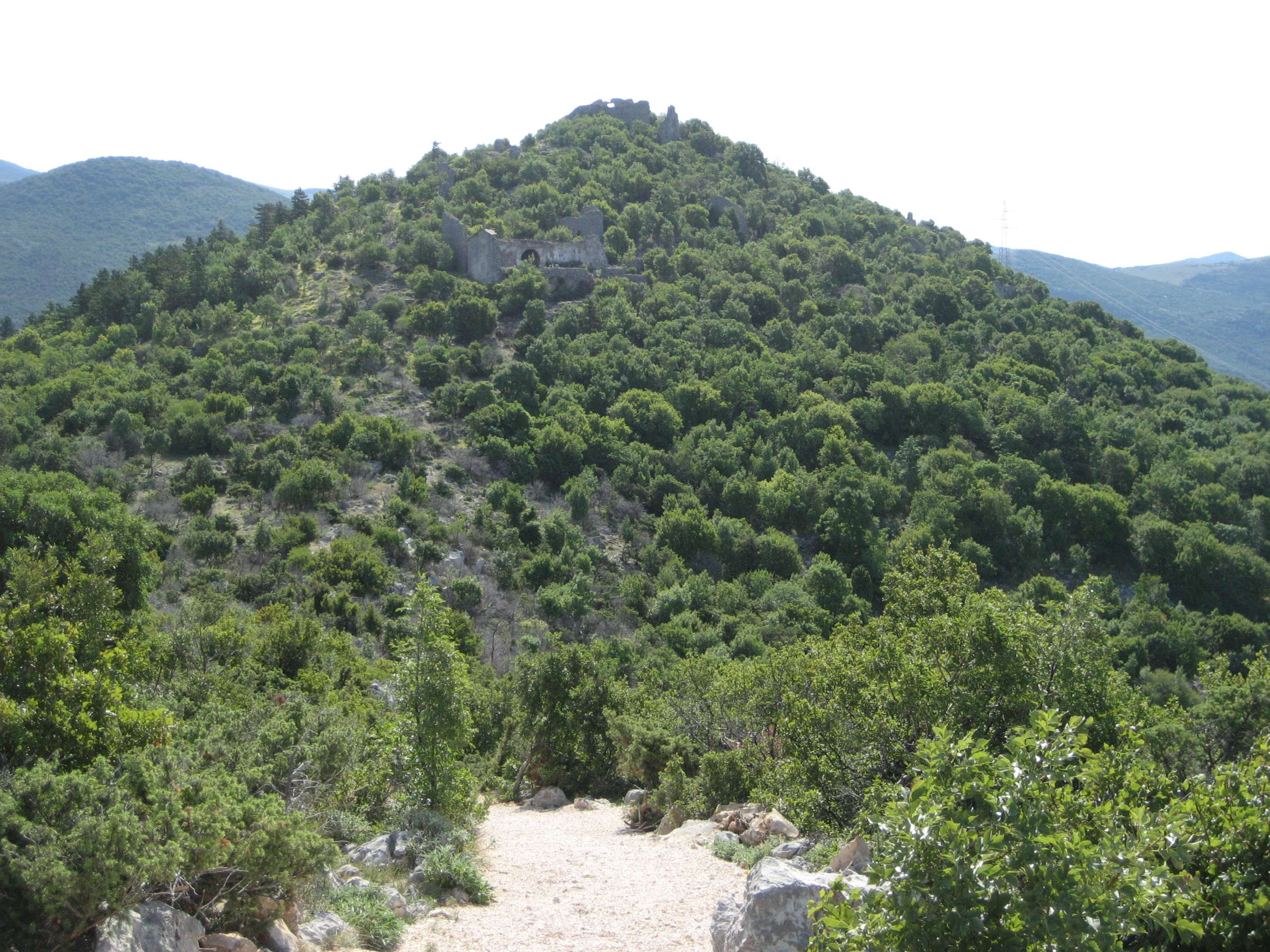 Ledenice, Croatia